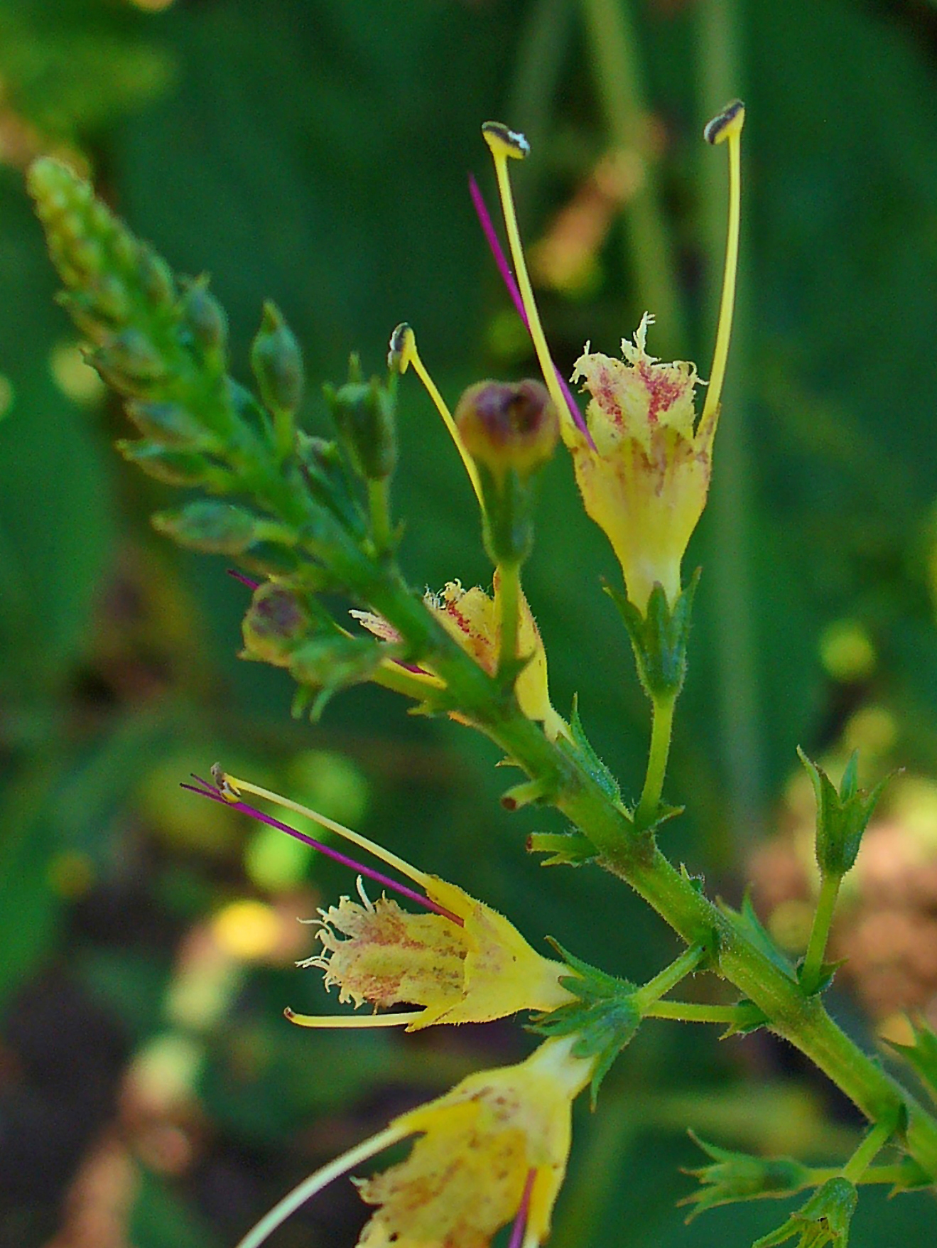 Collinsonia canadensis, Lamiaceae, Canada Horsebalm, Richweed, Hardhack, Heal-All, Horseweed, Ox-Balm, Stone root, flowers; Stutensee, Germany.